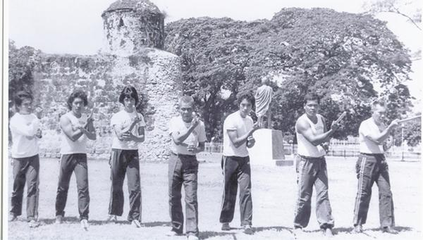 "Chito" Velez, "Meo" de la Rosa, "Nene" Gaabucayan, "Anciong" Bacon, Ray la Victoria, "Bobby" Taboada, Teofilo Velez at Fort San Pedro, Cebu City.